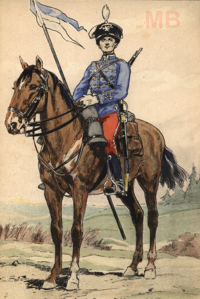 Uniform of 7-th Belorussky Husar Regiment. 1914 Postcard